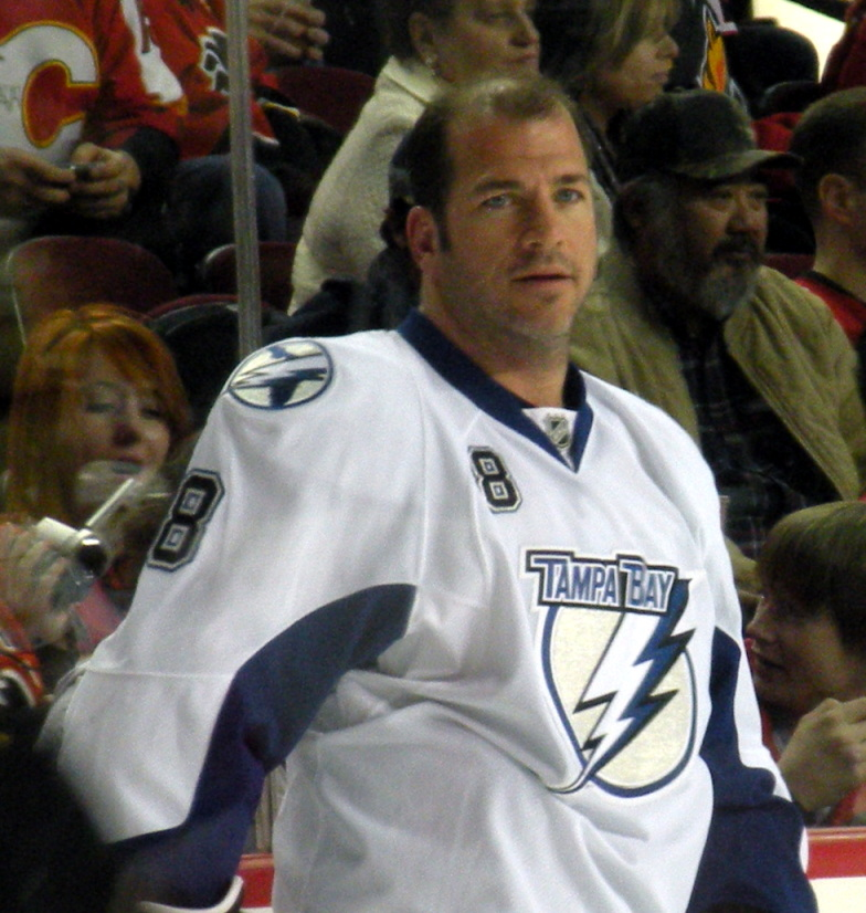 Mark Recchi of the Tampa Bay Lightning warming up prior to a game against the Calgary Flames in Calgary